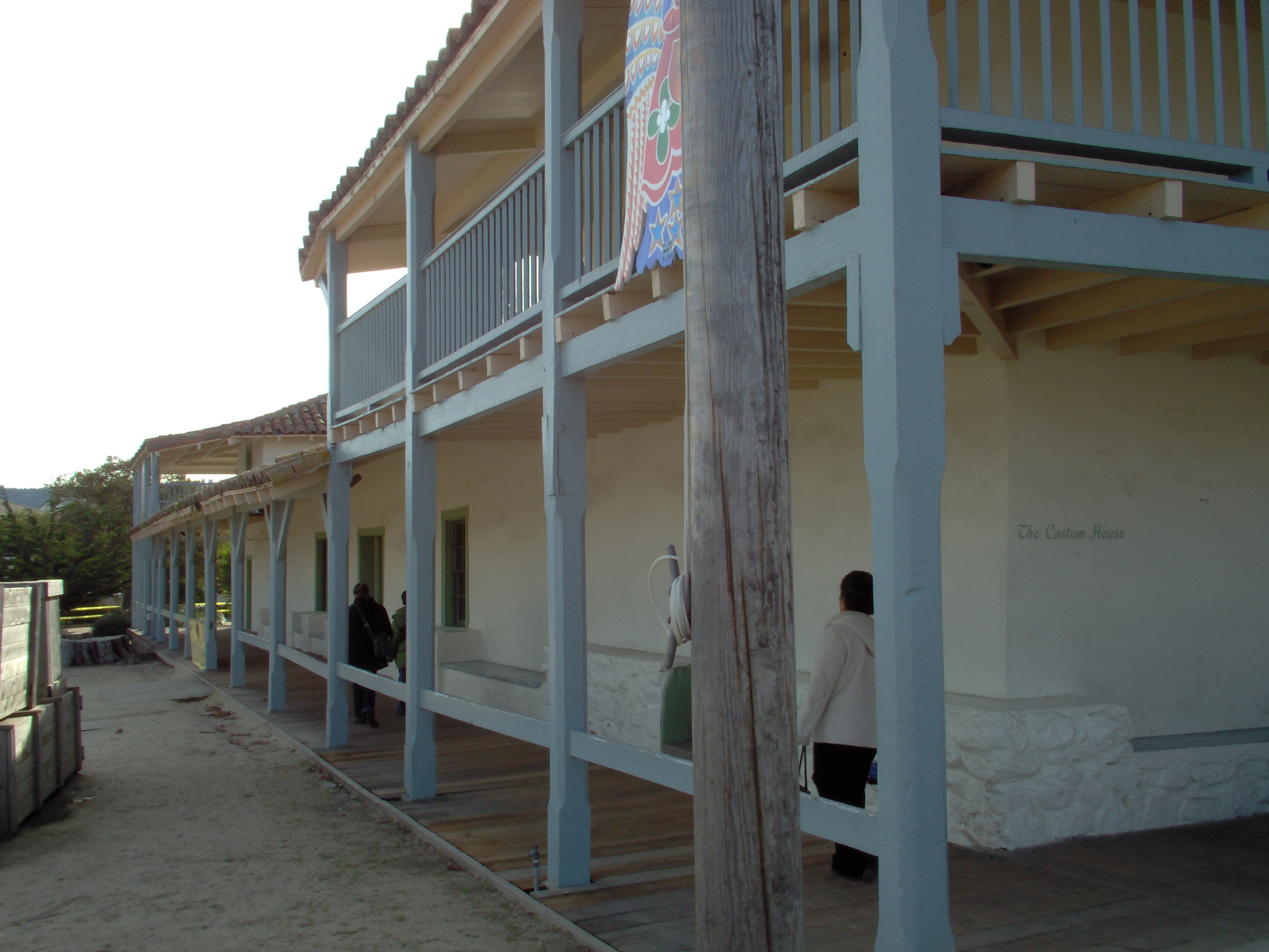 Customs house in Monterery California, built in the 1830's. Shows many of the features of the later ranch houses of the 20th century.